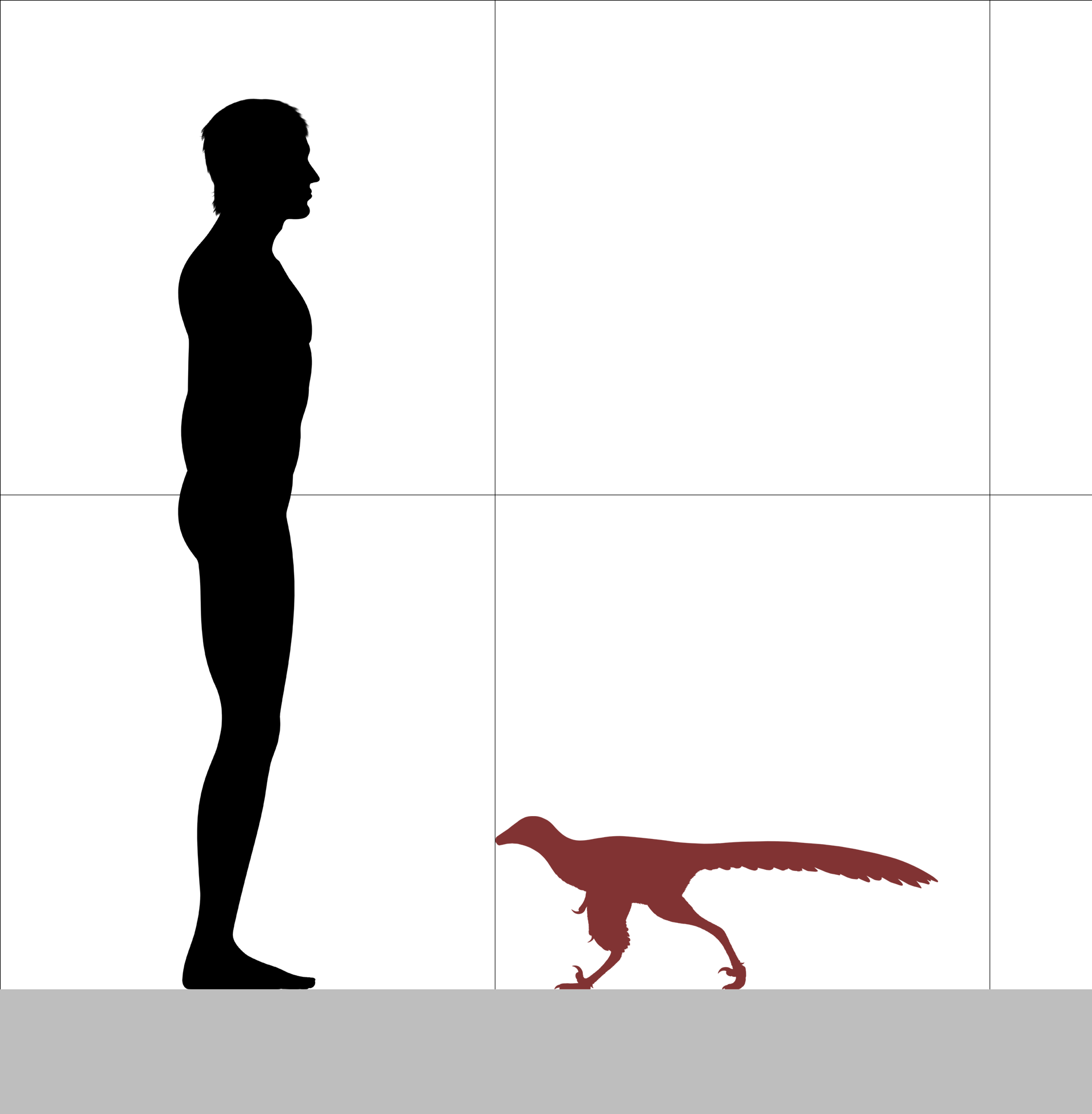 Size comparison between the small troodontid Hesperornithoides and a 1.8 m tall man. Hesperornithoides is estimated at 89 cm (35 in) long.[1]